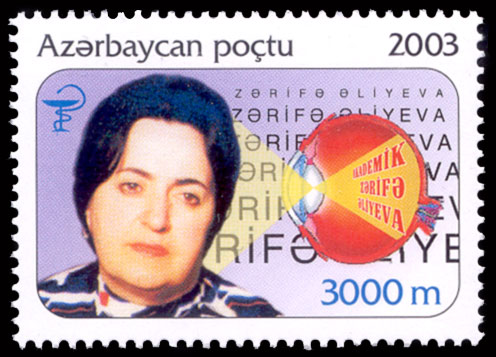 The 80th Anniversary of academician Zarifa Aliyeva. The stamp pictured the academician, pedagogue, ophthalmologist Zarifa Aliyeva.The issue of stamp is dedicated to the 80th anniversary of Zarifa Aliyeva.